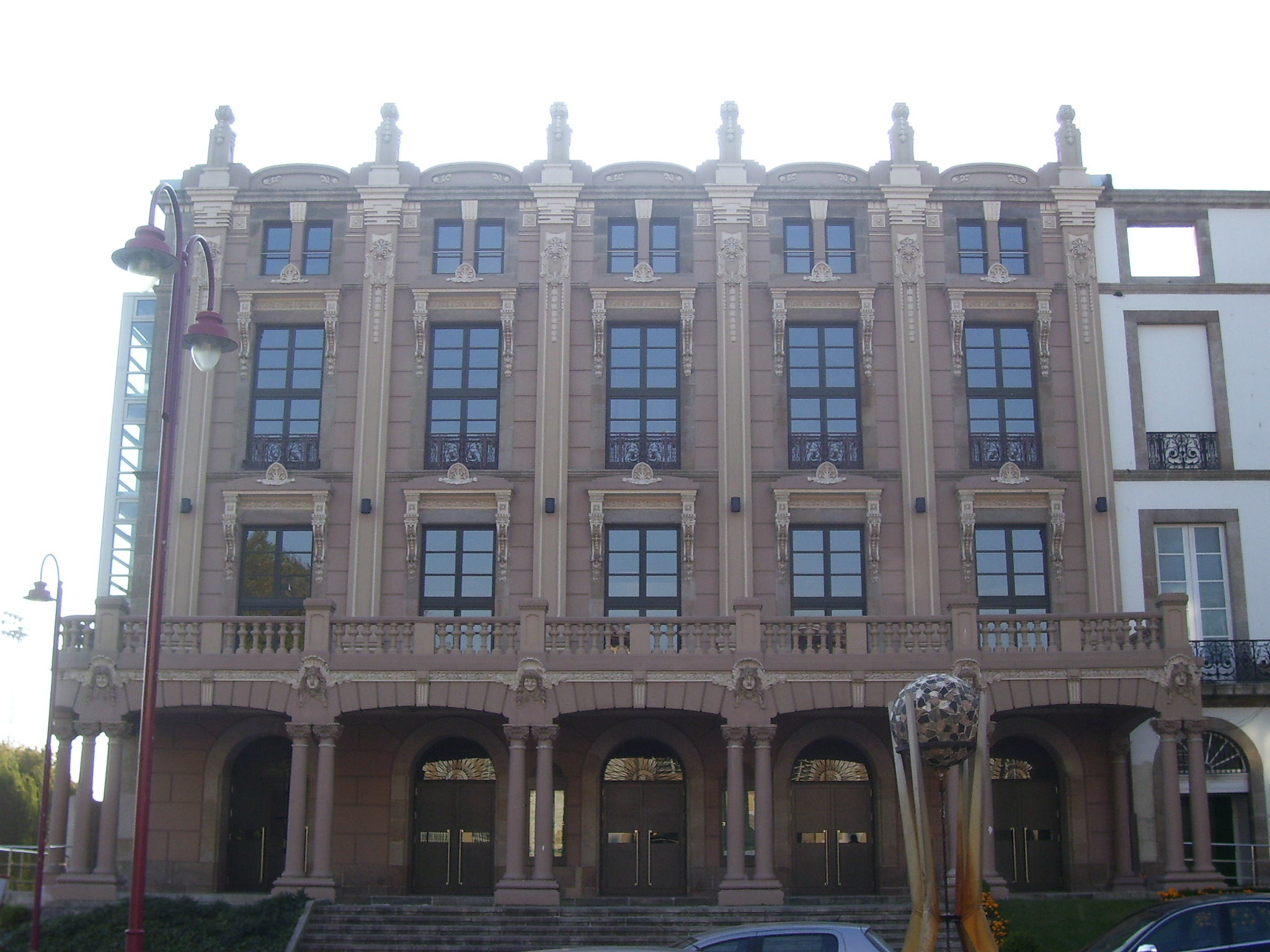 Theater in Ferrol